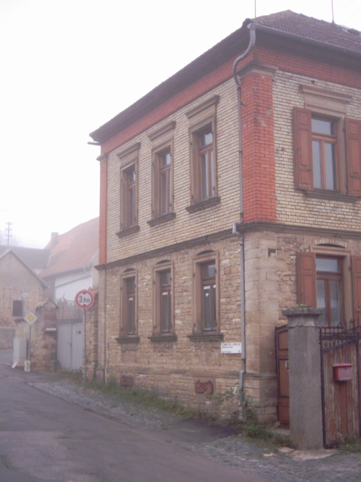 A house in Freimersheim, Rhineland-Palatinate, Germany.